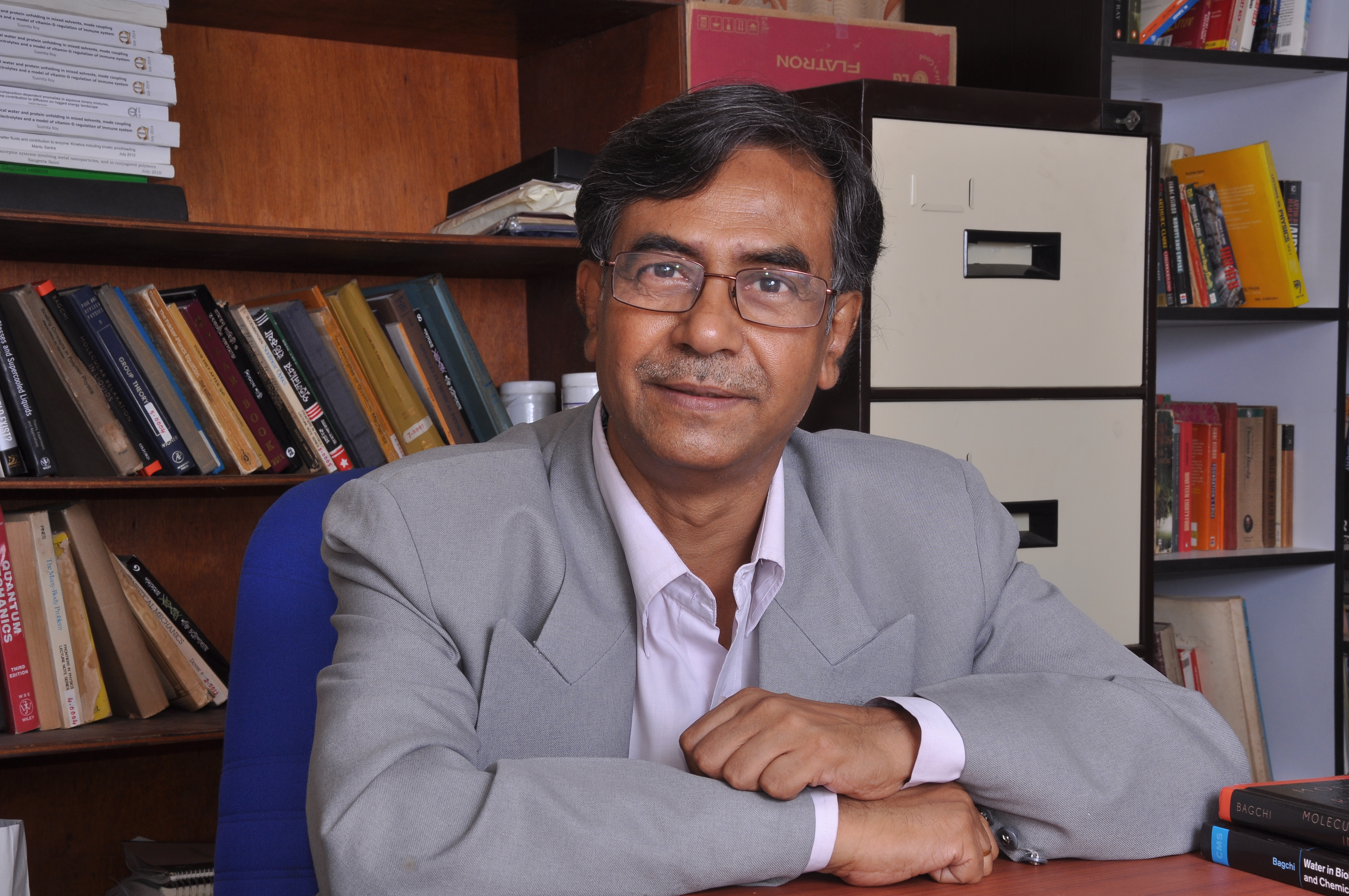 Professor Biman Bagchi at his office